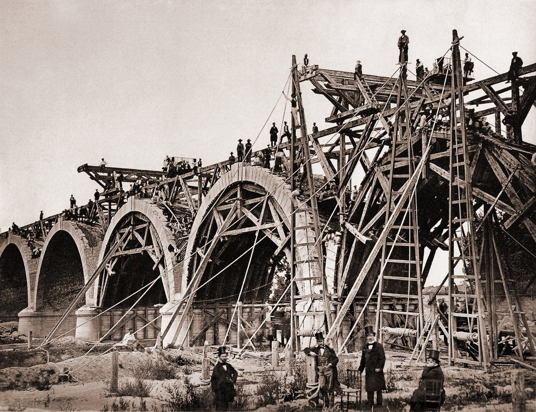 Construction of Puente de los Franceses (literally "Bridge of the French") in Madrid (Spain).